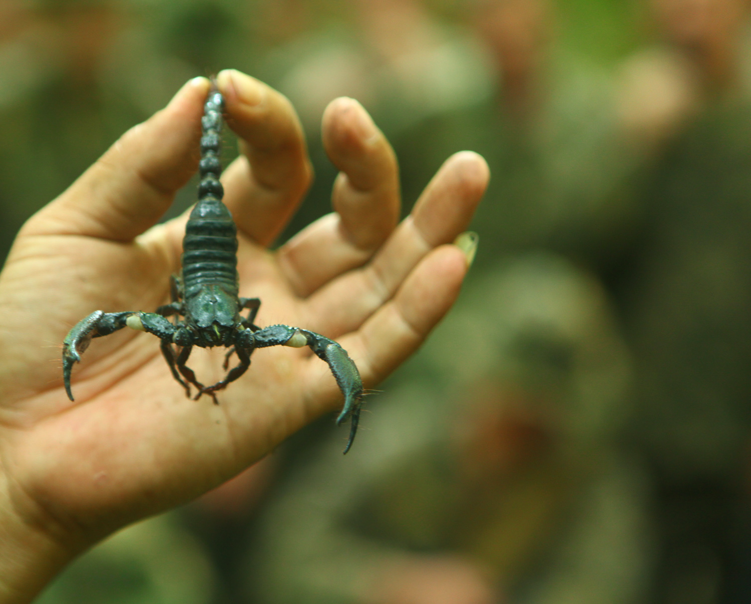 An Indonesian Marine demonstrates how to neutralize scorpions and use them to survive during jungle survival training May 28. The Marines and Sailors with Landing Force Company, primarily compromised from 2nd Battalion, 23rd Marine Regiment, are participating in Cooperation Afloat Readiness and Training (CARAT) 2011 through June. CARAT is an annual bilateral exercise held between the U.S. and Southeast Asian nations with the goals of enhancing regional cooperation, promoting mutual trust and understanding and increasing operational readiness throughout the participating nations. While in Indonesia, the service members from both nations trained in martial arts, military operations in urban terrain, jungle survival, combat marksmanship, sniper techniques and combat lifesaving skills.